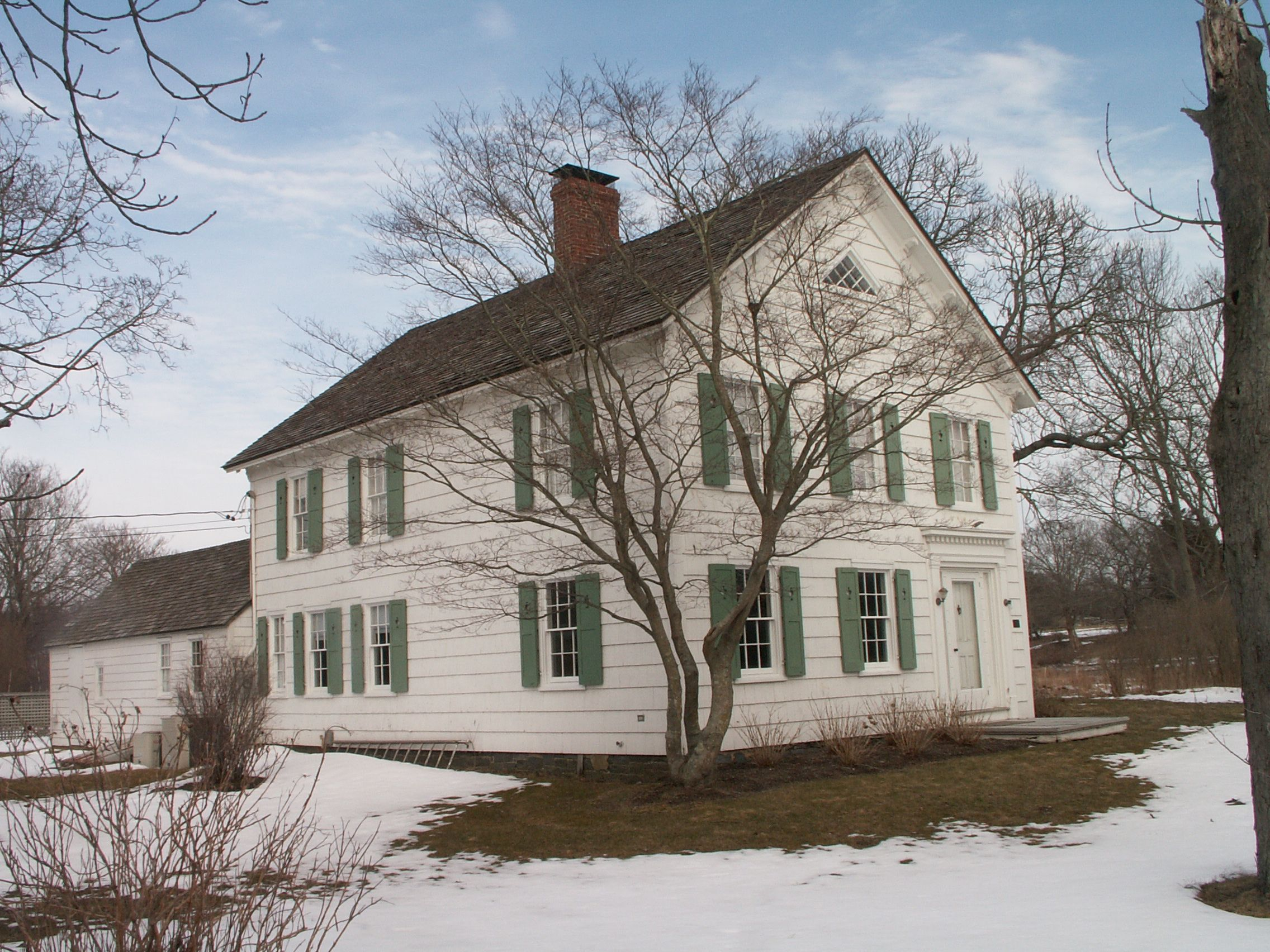 Sherrill Farmhouse in East Hampton, New York on National Register of Historic Place